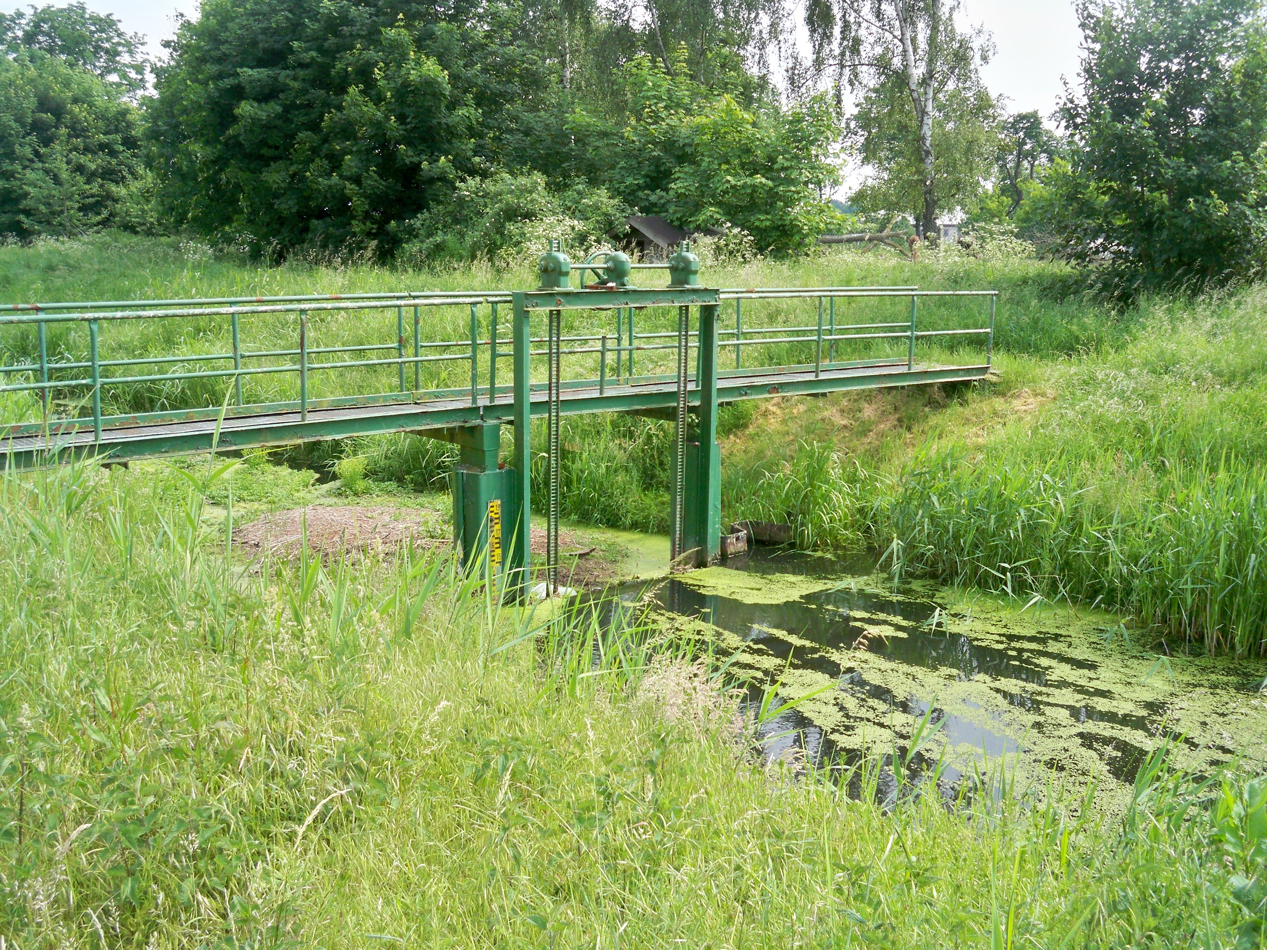 Oebisfelde-Weferlingen, Saxony-Anhalt, Allerkanal near Bergfriede, weir